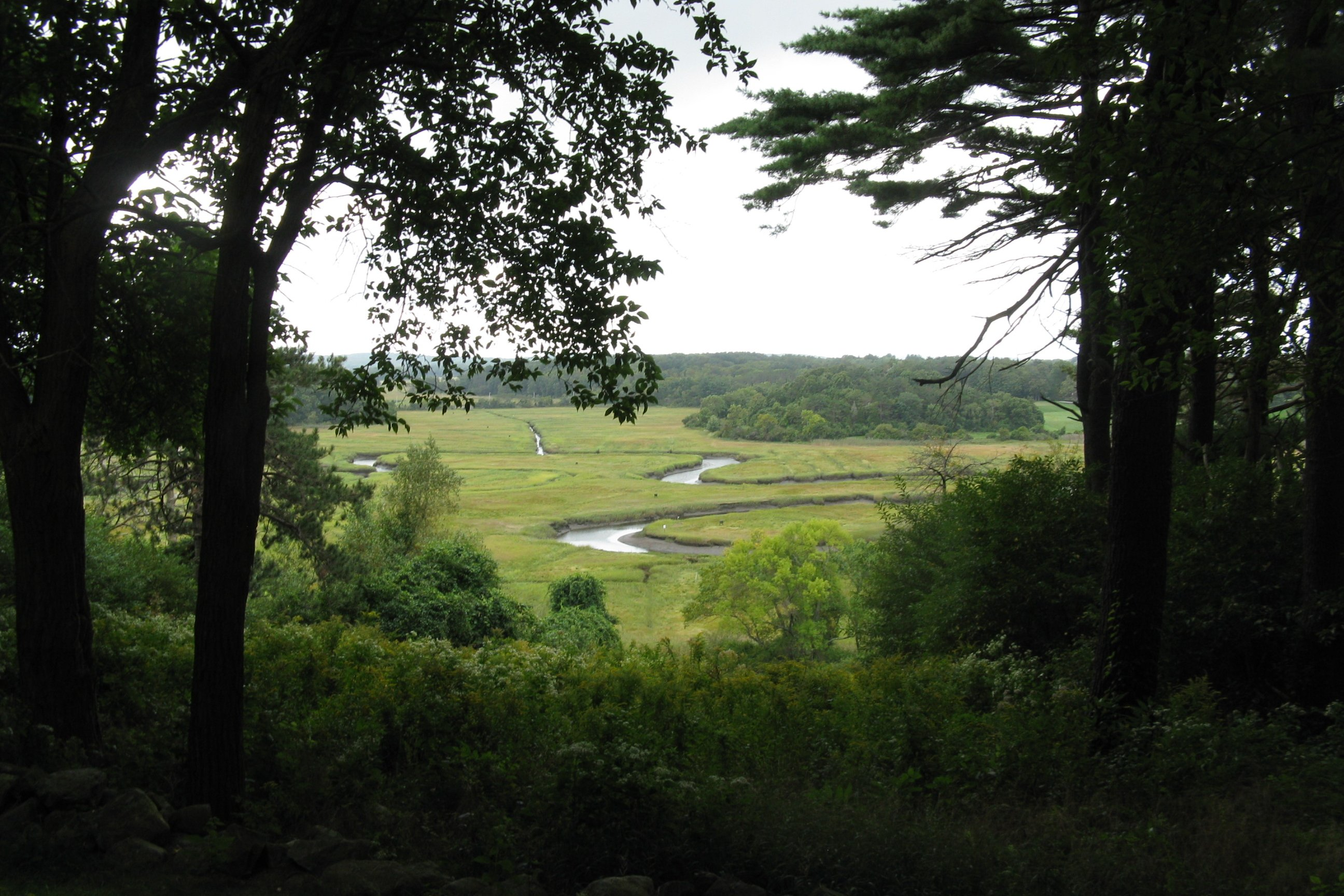 A view from Castle Hill, Ipswich Massachusetts